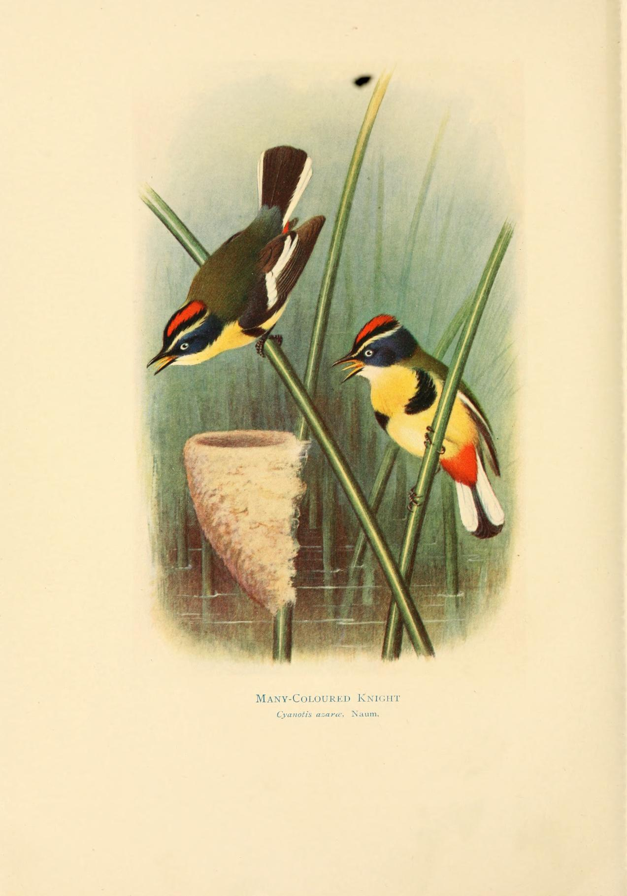 Many-coloured rush tyrant Tachuris ribrigastra, colour plate from 1920